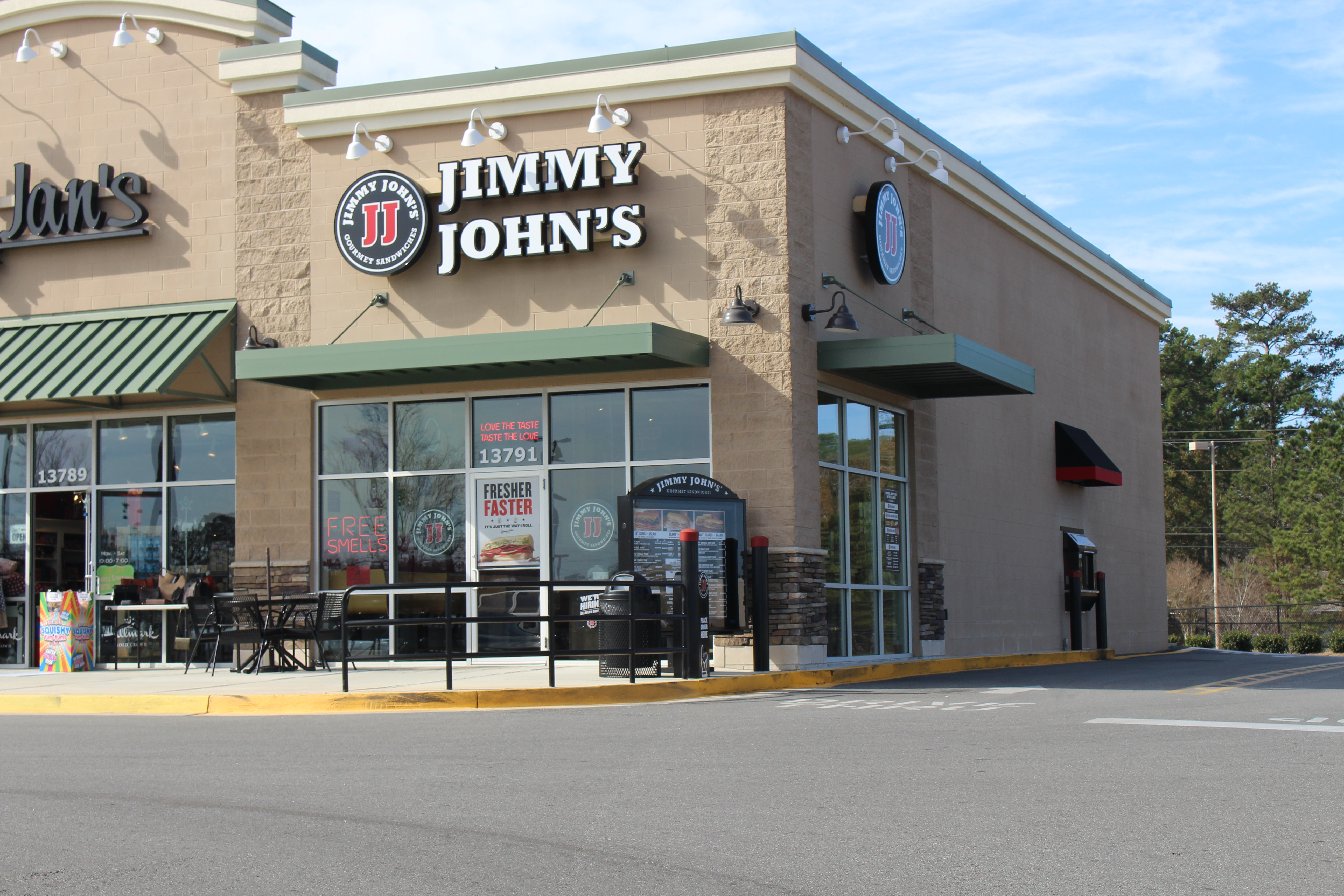 Jimmy John's, Thomasville, Thomas County, Georgia